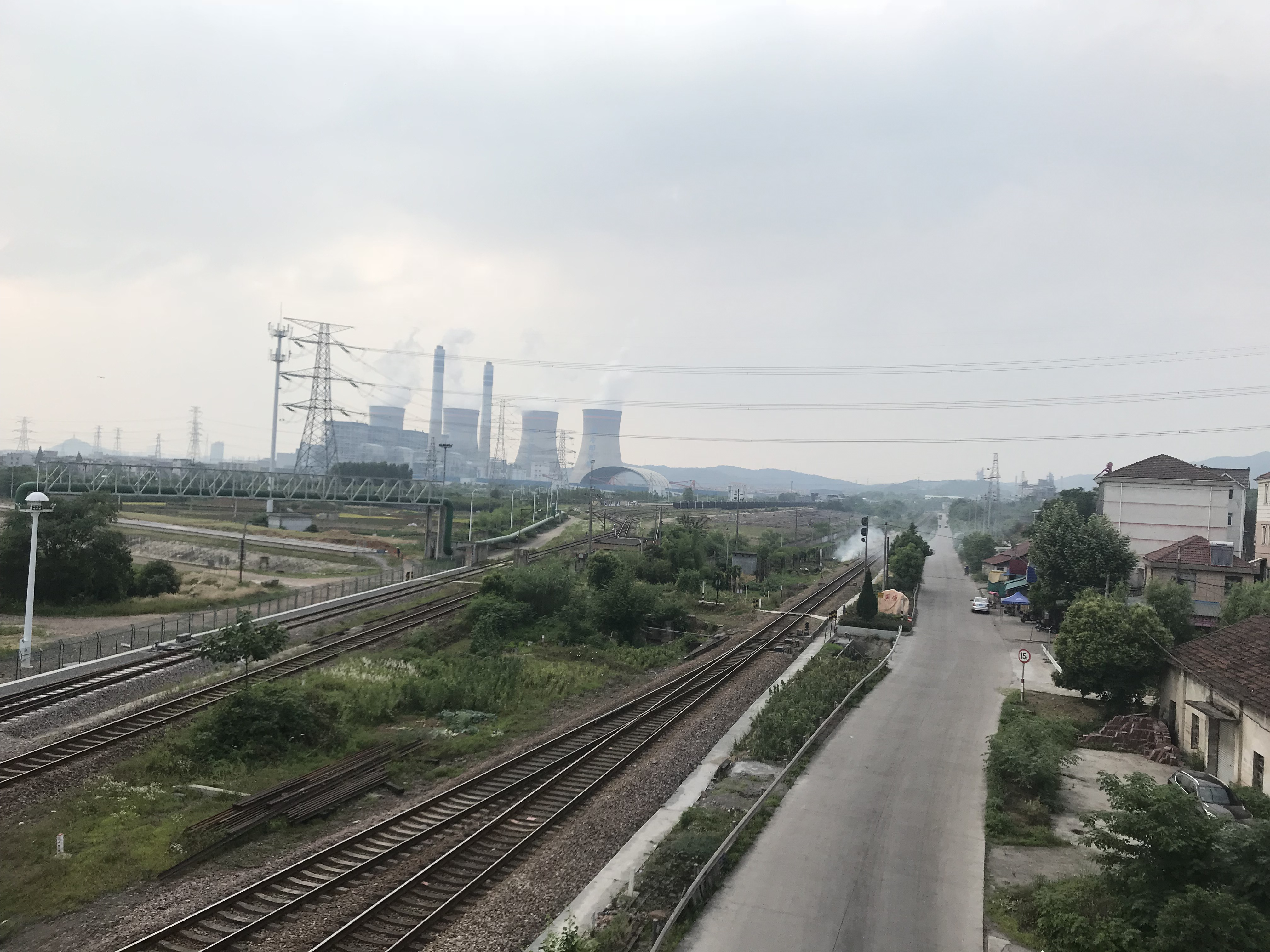 201805 Lanxi Power Plant-Line at Gongtang Station